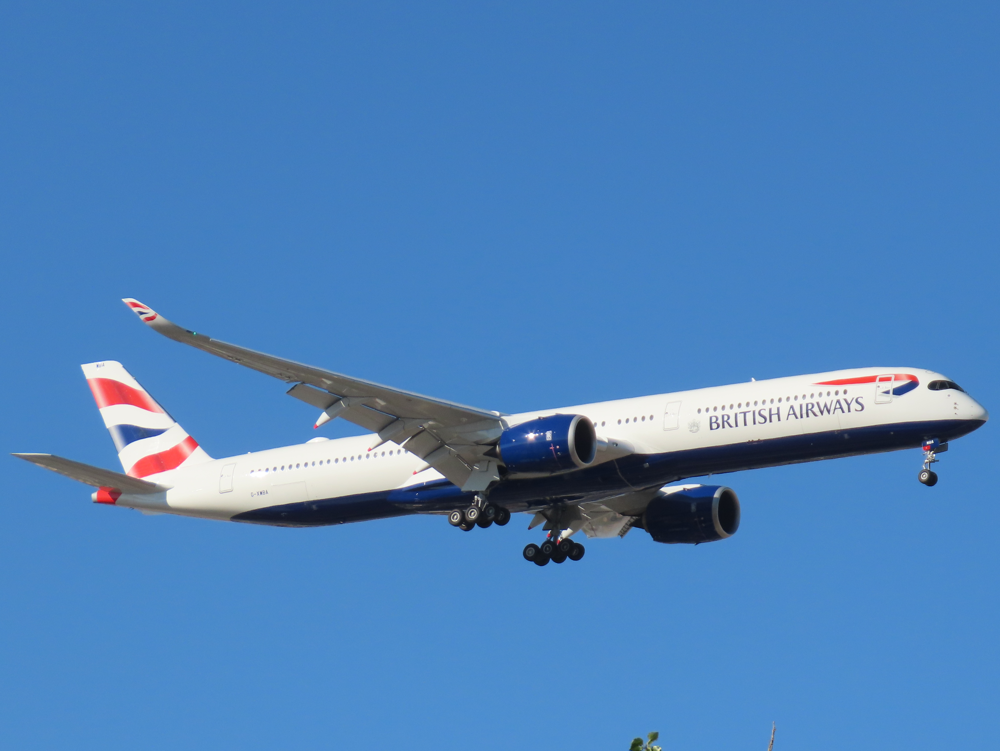 G-XWBA landing at Madrid-Barajas.